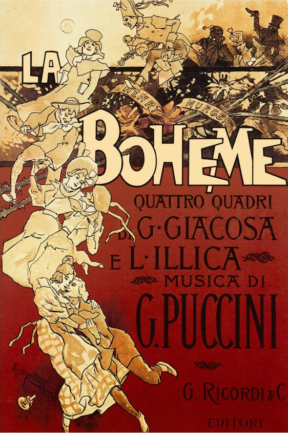 Poster for the 1896 production for Puccini's La bohème.